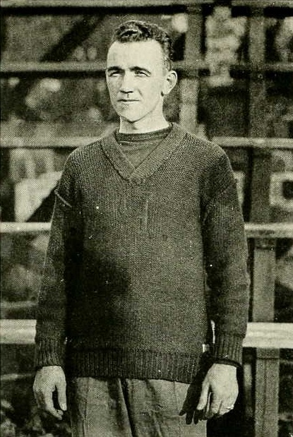 Photograph of Pat Herron